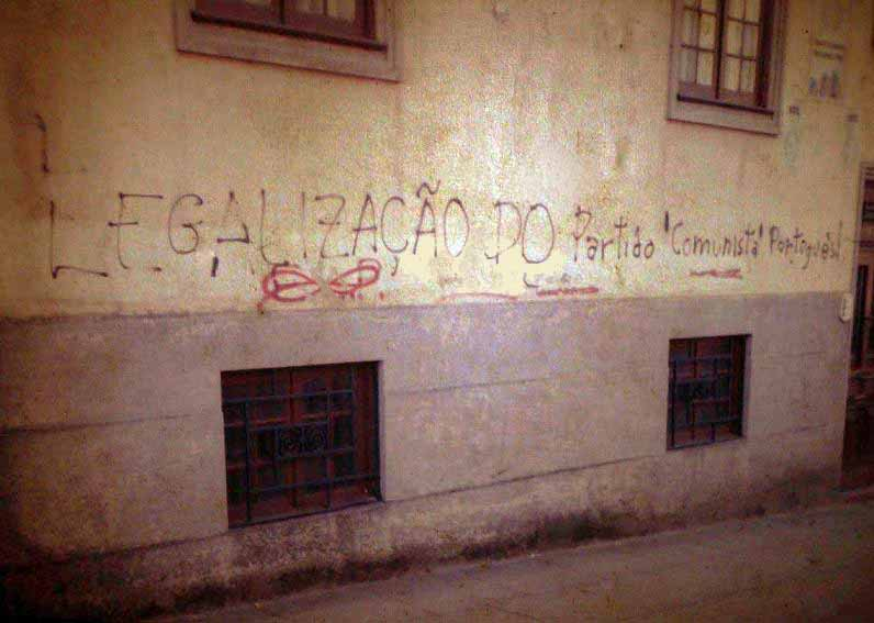 Legalization of PCP